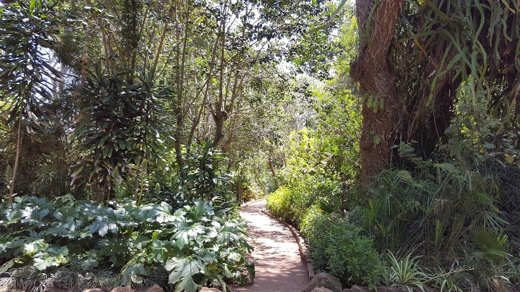 Salé Morocco